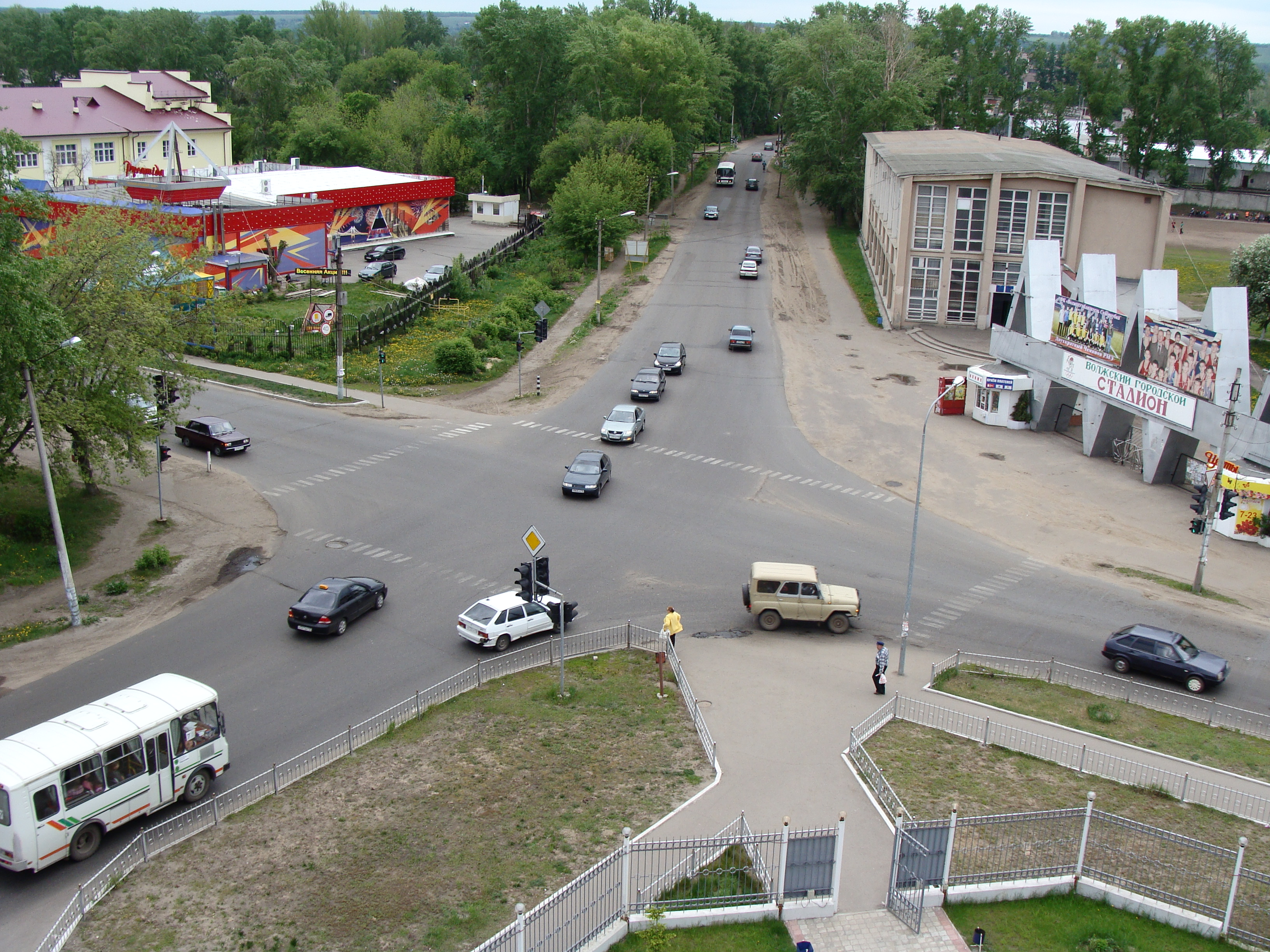 Crossroads of street of Lenin in the city of Volzhsk (Russia, Marias-El Republic) It is city center. A kind from a roof hotel-entertainment complex "Ariada"